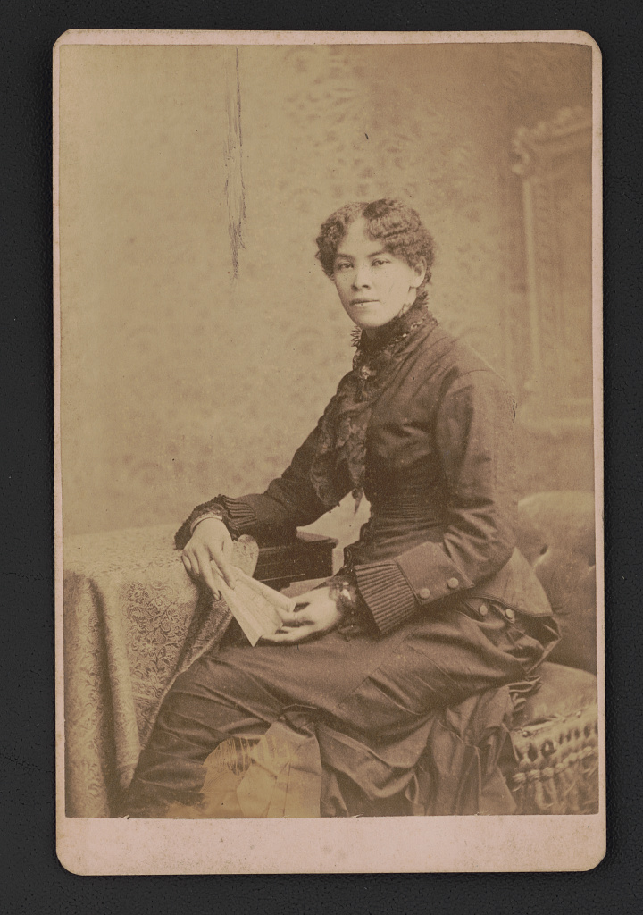 Josephine A. Silone Yates, educator and activist, seated before studio backdrop, 1885